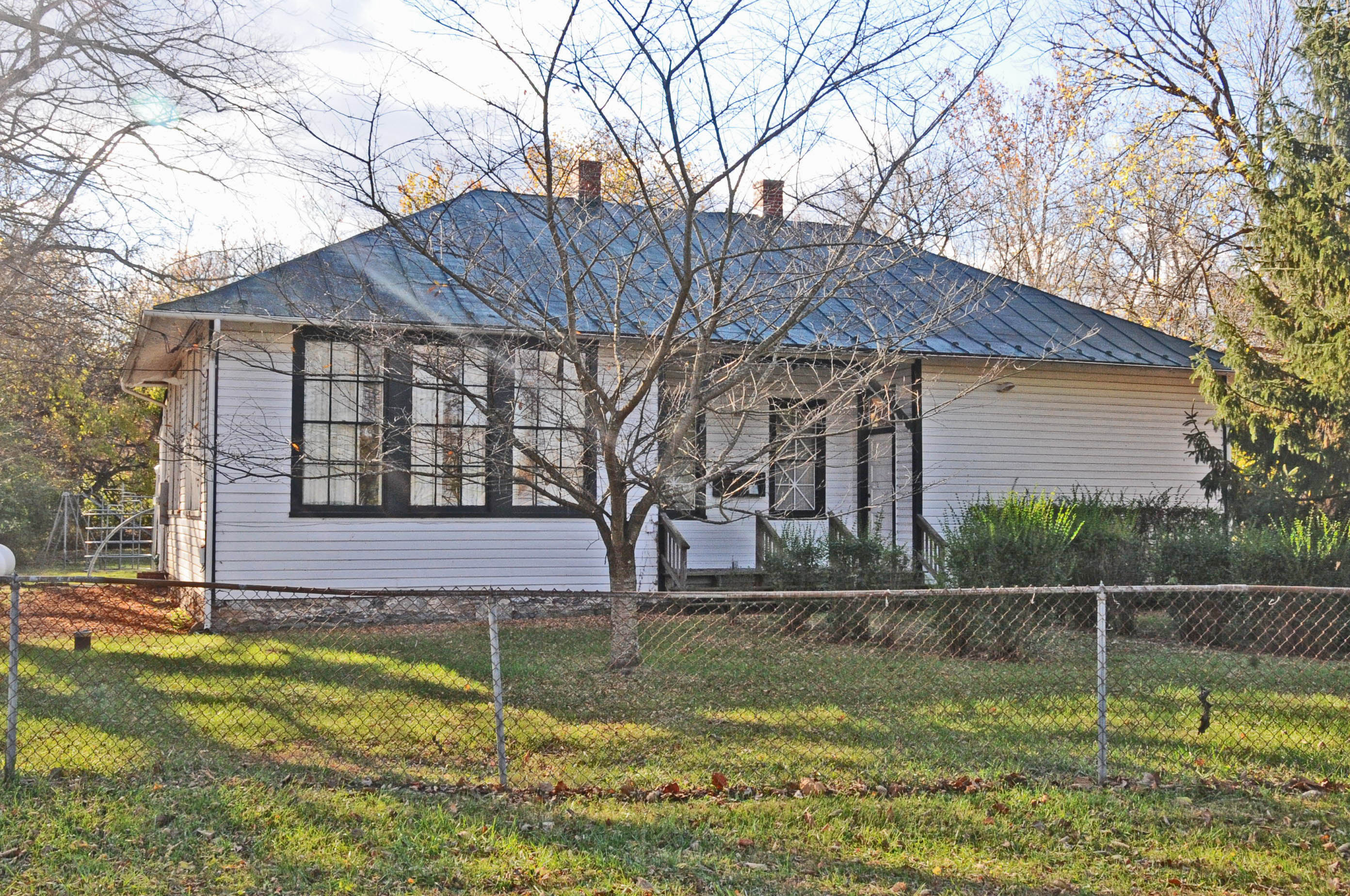 Built from around 1910 and used until 1952 when it became the Millwood Community Center